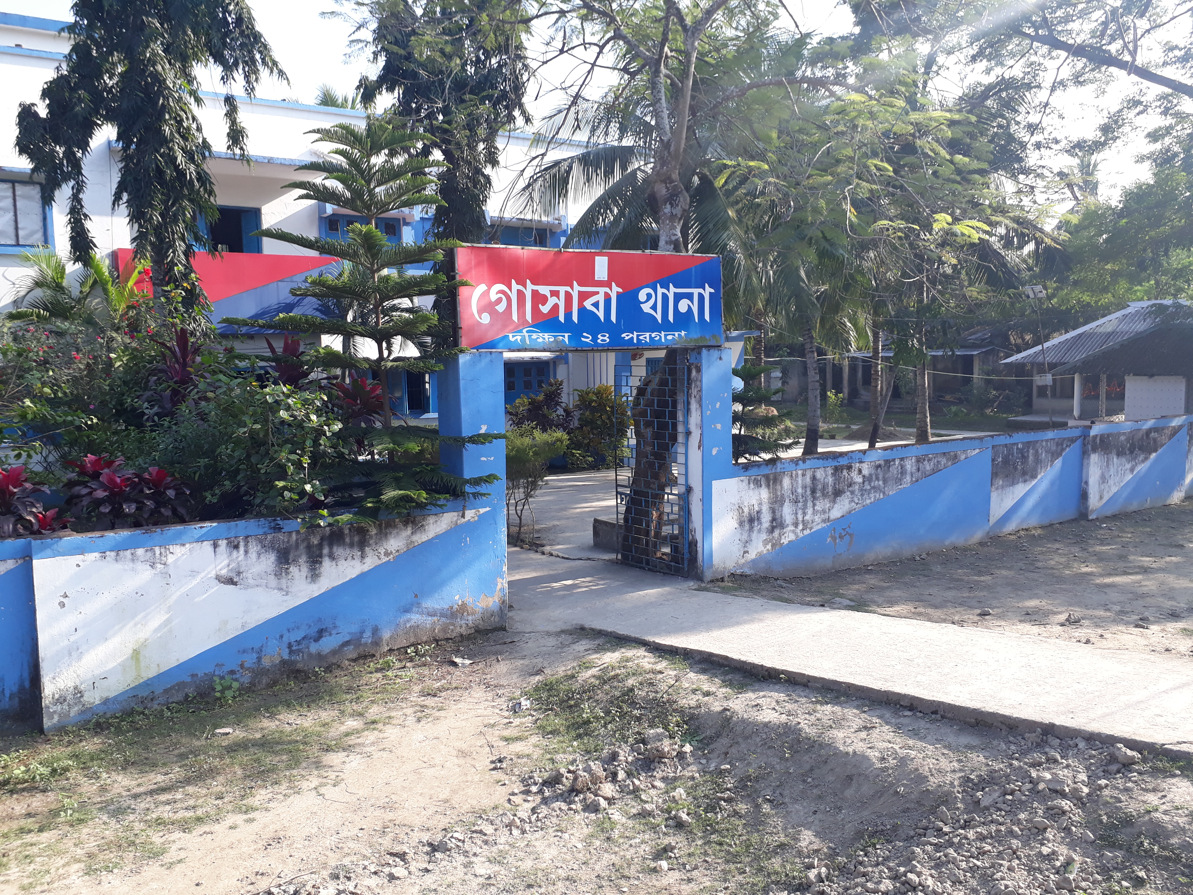 Gosaba Police Station at Gosaba, South 24 Pgns